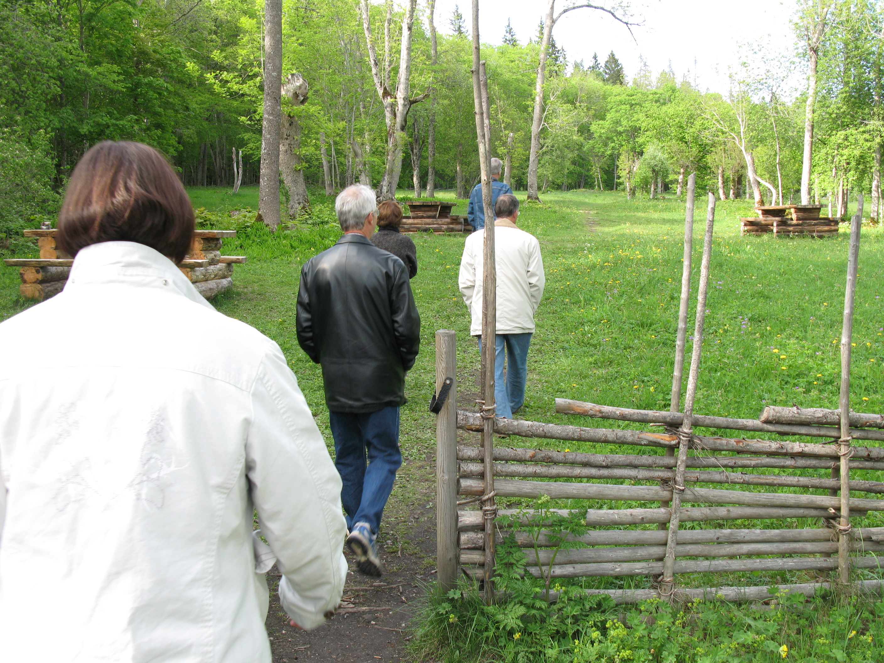 The national park in Garphyttan, Sweden